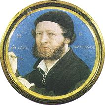 Engraved miniature depicting Hans Holbein the Younger.